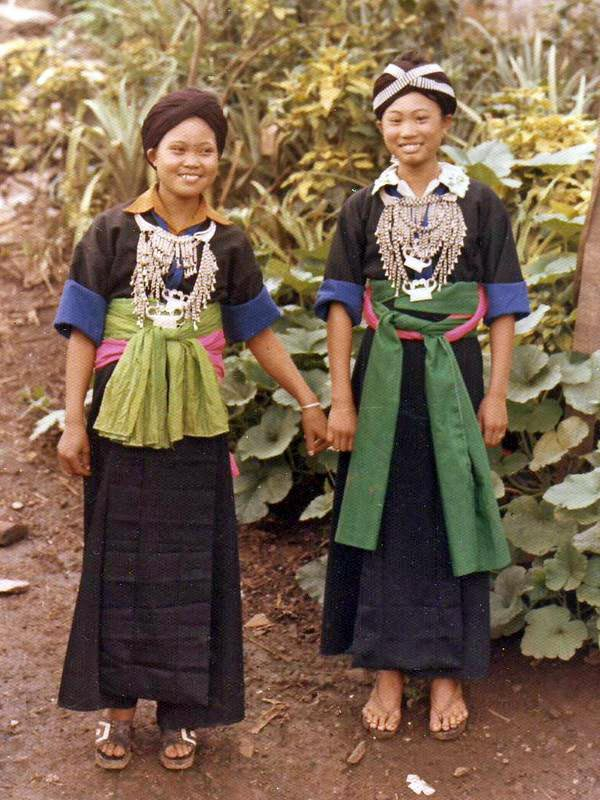 This photo of Hmong girls was taken in 1973 in Long Tieng, Laos.